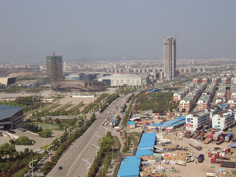 photo of yiwu